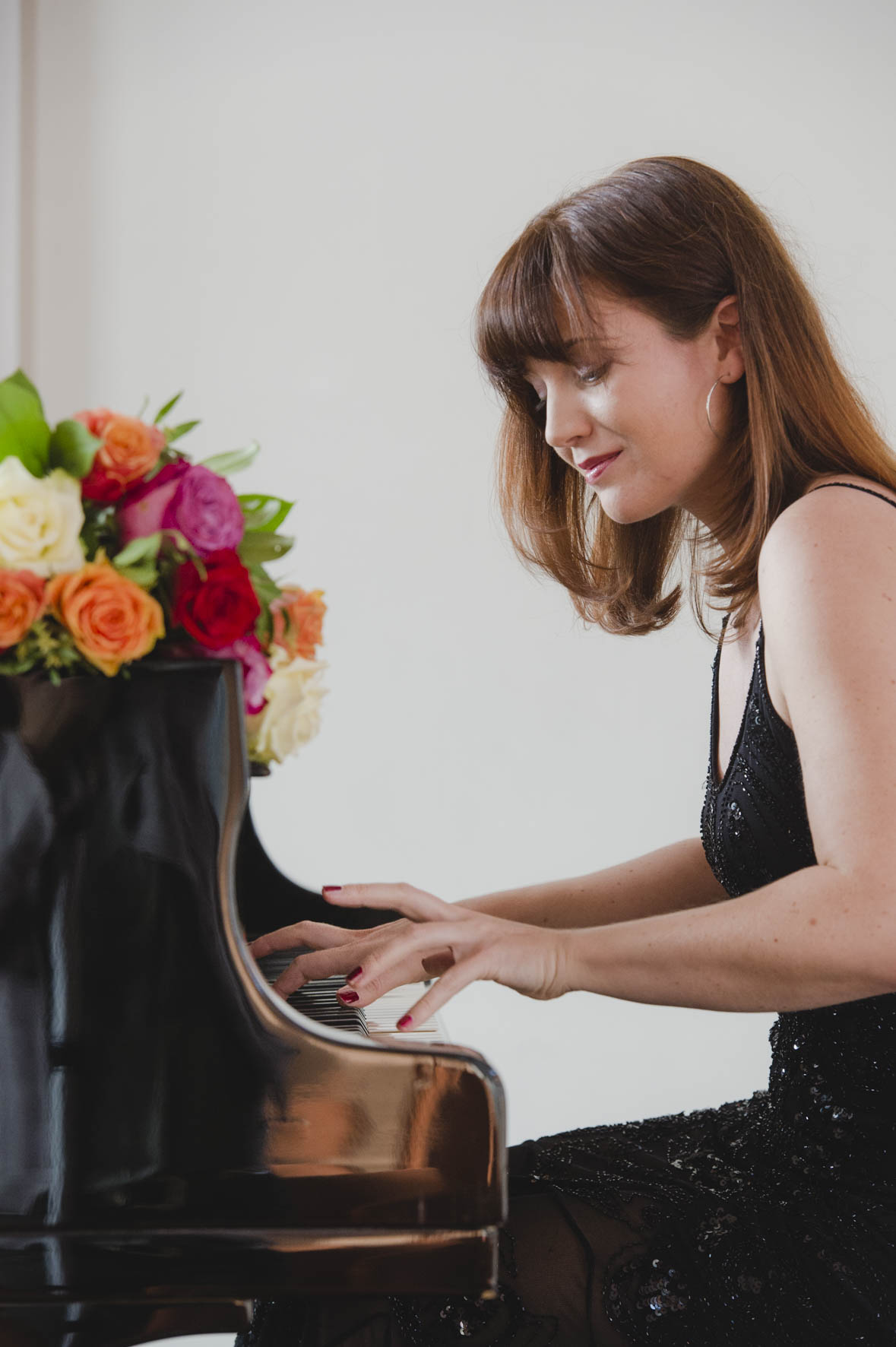 picture of Lisa Maria Schachtschneider